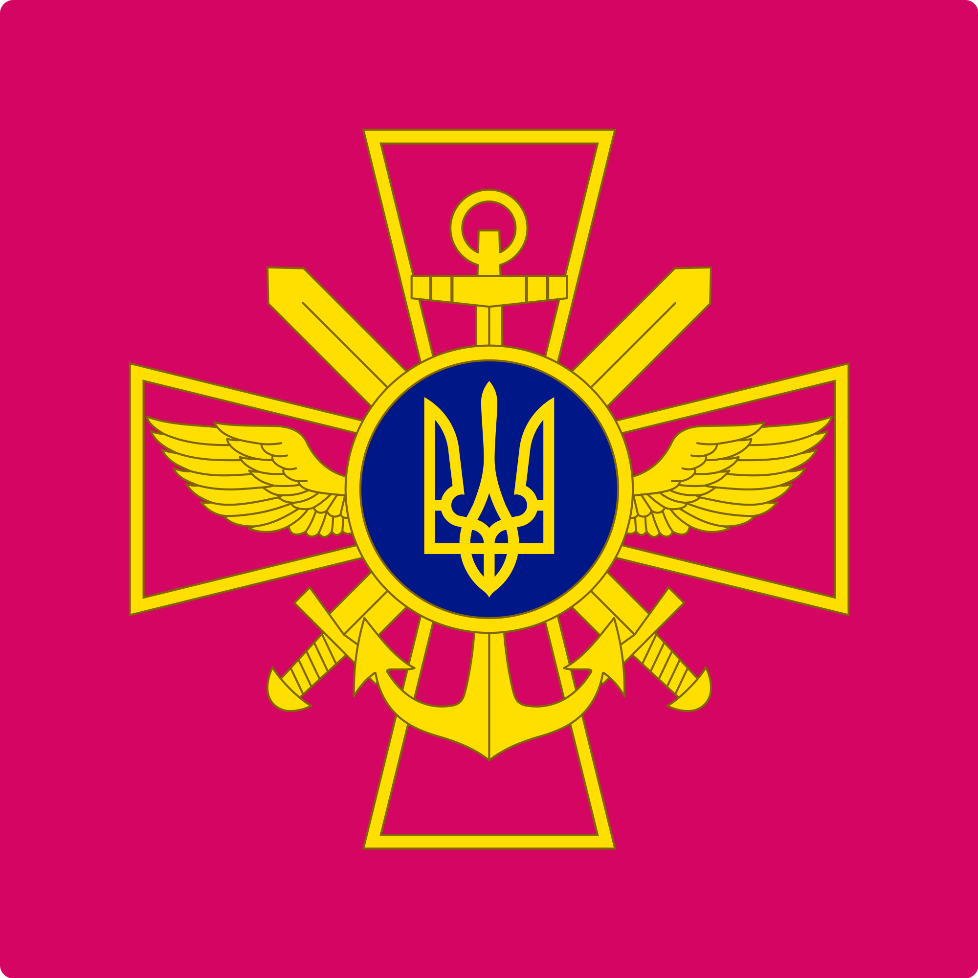 Standard of Ukrainian Chief of the General Staff